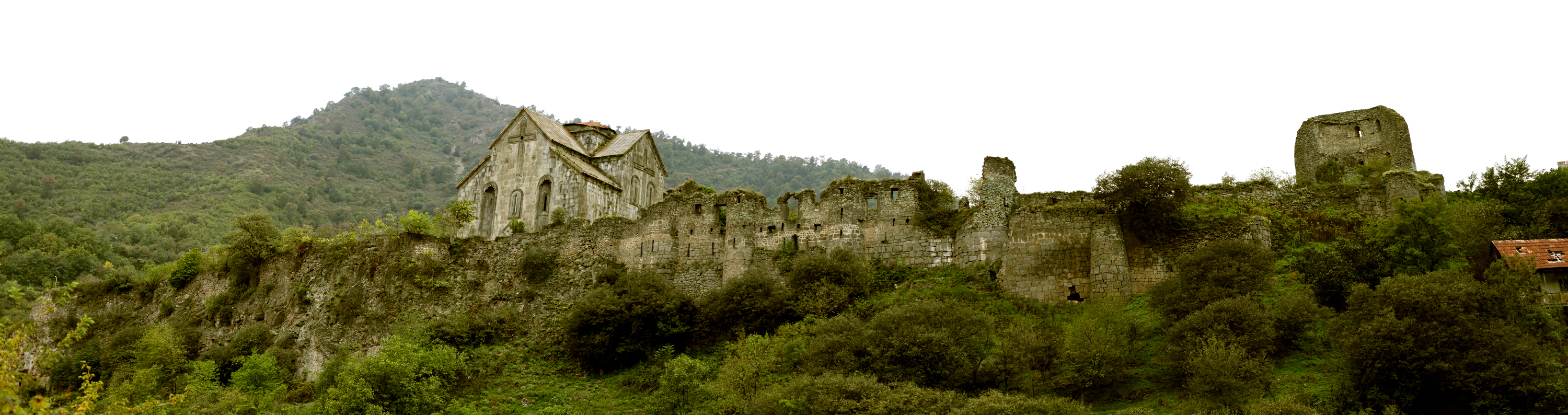 Akhtala monastery and fortress wall.